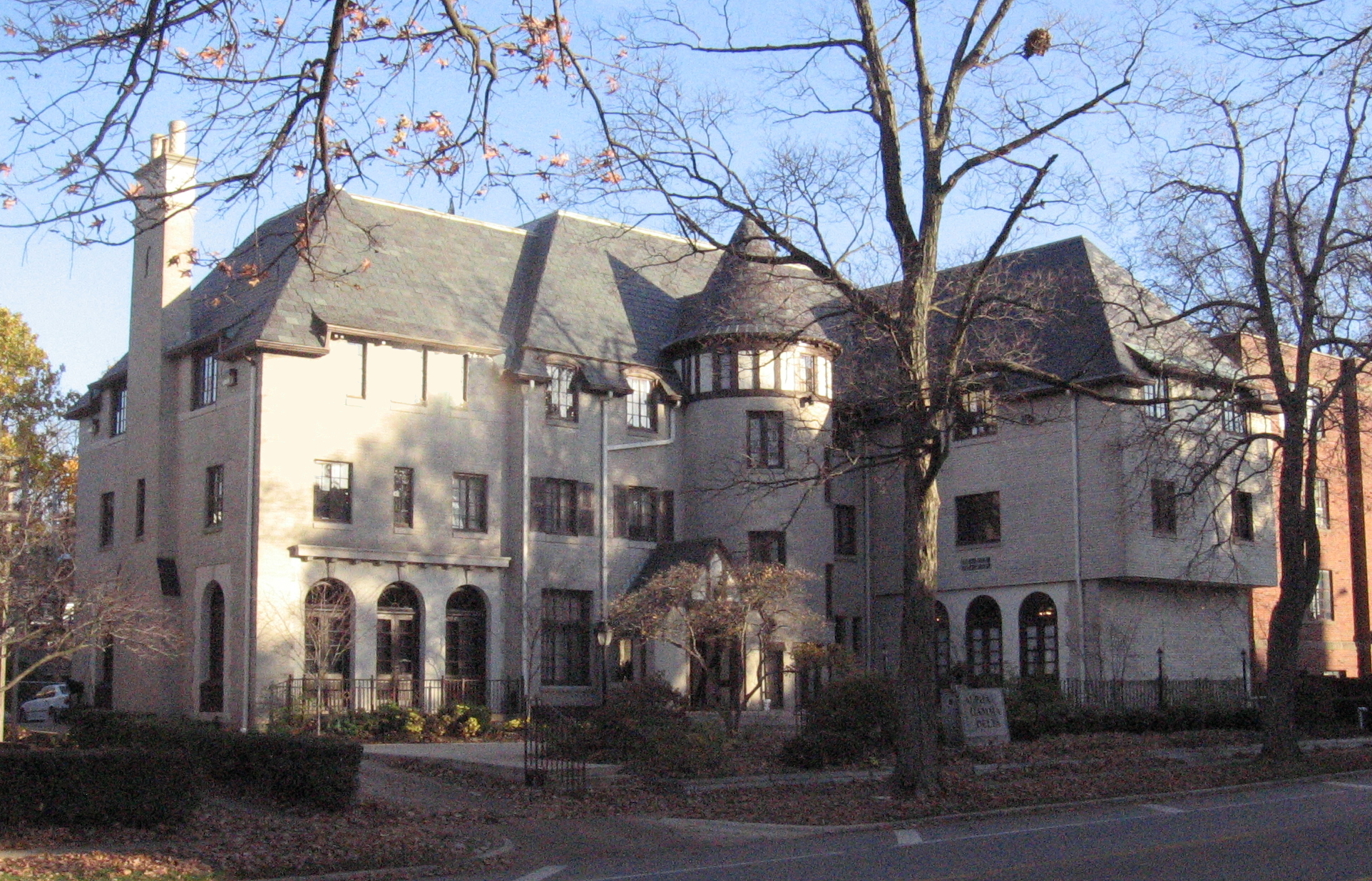 The Alpha Gamma Delta fraternity (sorority) house at the University of Illinois, Urbana, Illinois. This structure appears on the National Register of Historic Places.